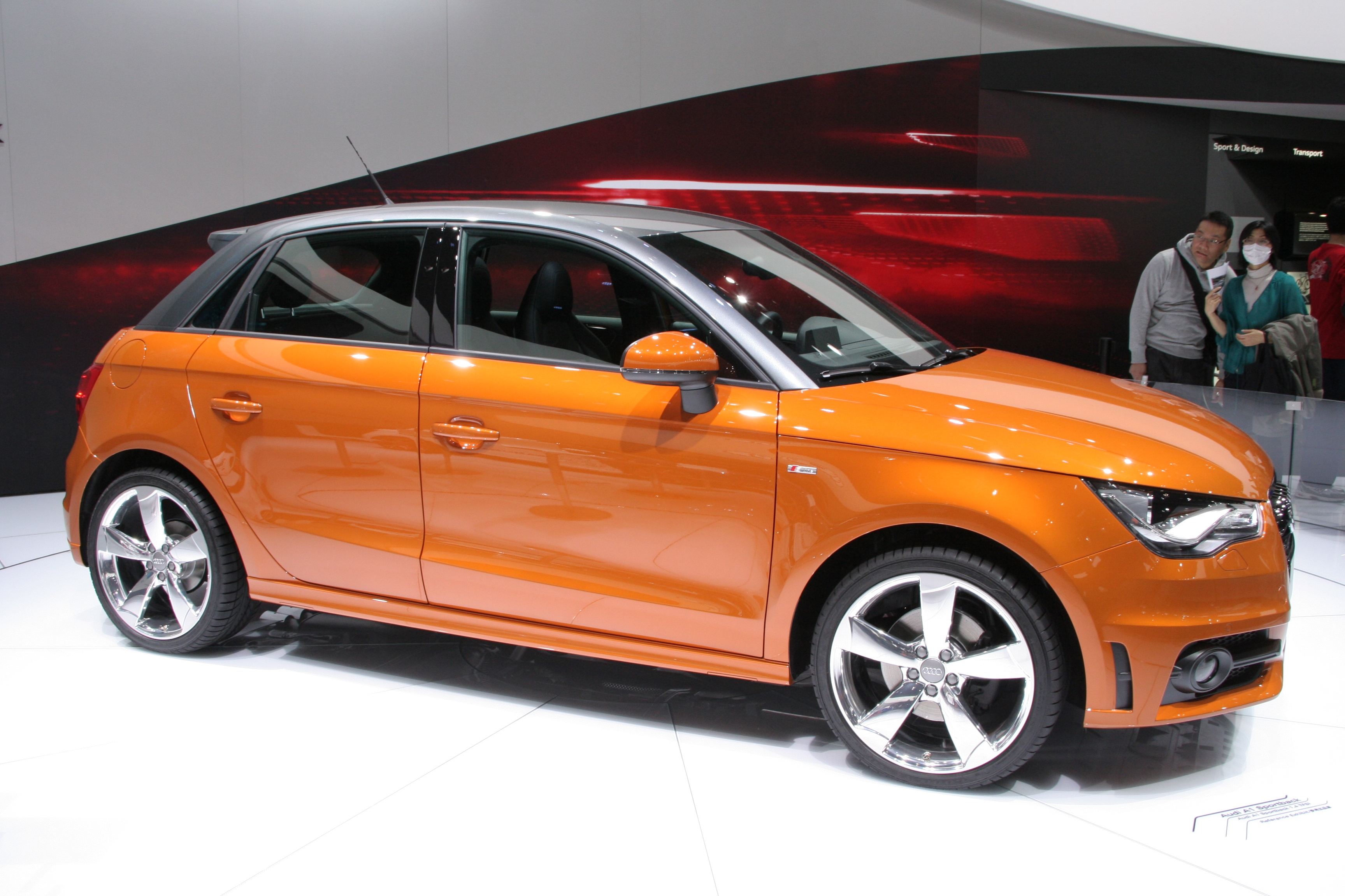 Audi A1 1.4T Sportback in Tokyo Motor Show 2011.